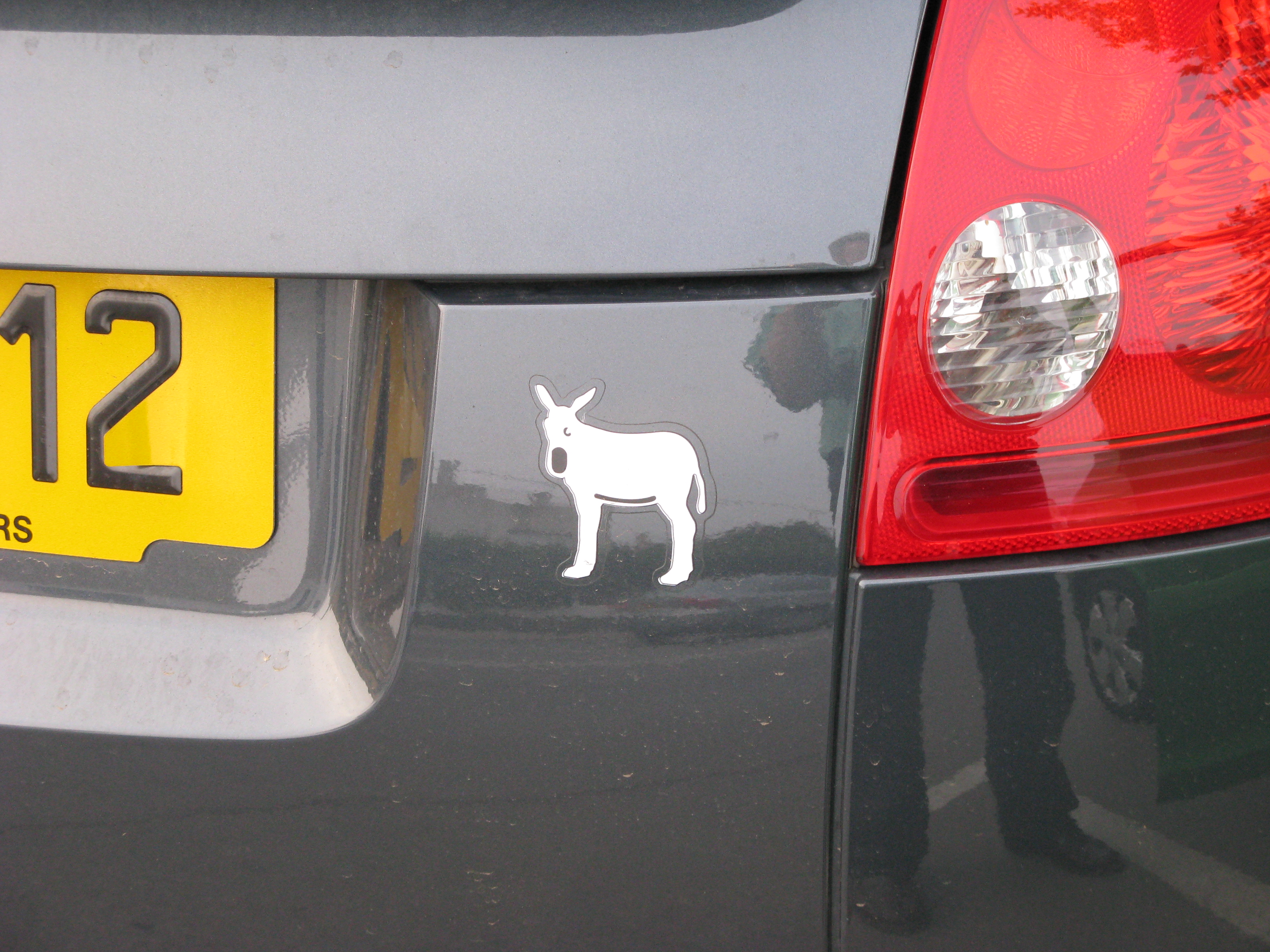 Catalan donkey (Catalan national symbol) at the rear of a car (Audi TT)